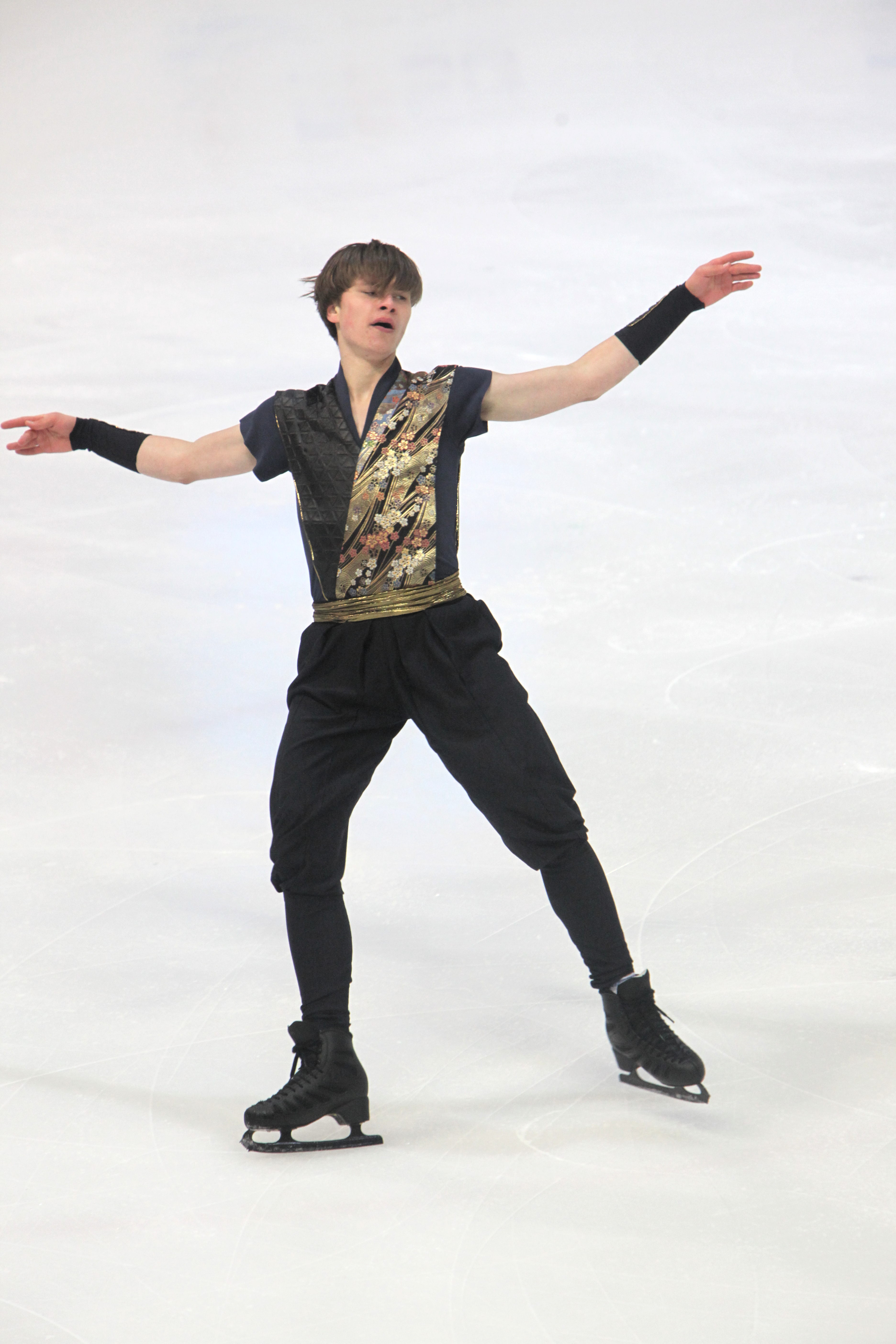 Deniss Vasiļjevs during the men's singles free skating at the Internationaux de France de Patinage 2018.